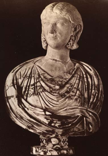 Bust of Annia Aurelia Faustina, third wife of Emperor Elagabalus